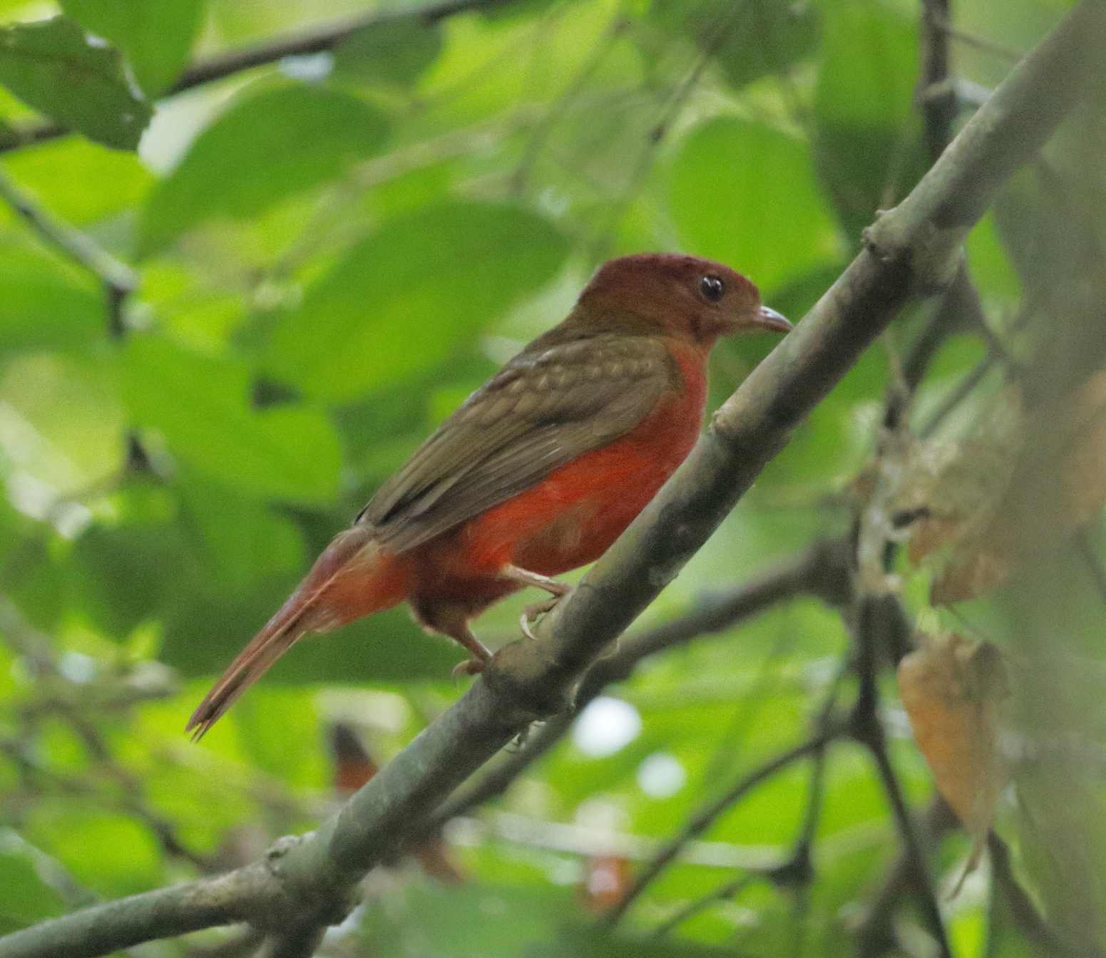 Guianan red cotinga (female) at Carajás National Forest - Pará - Brazil